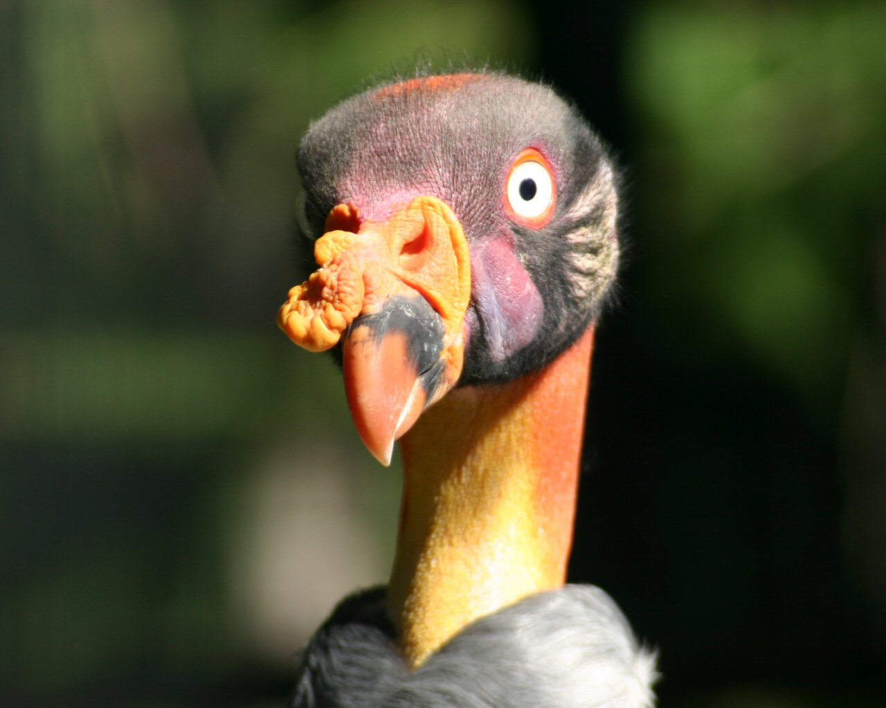 Picture taken by myself in the Zoologischer Garten Berlin in 2005. This is a King Vulture.